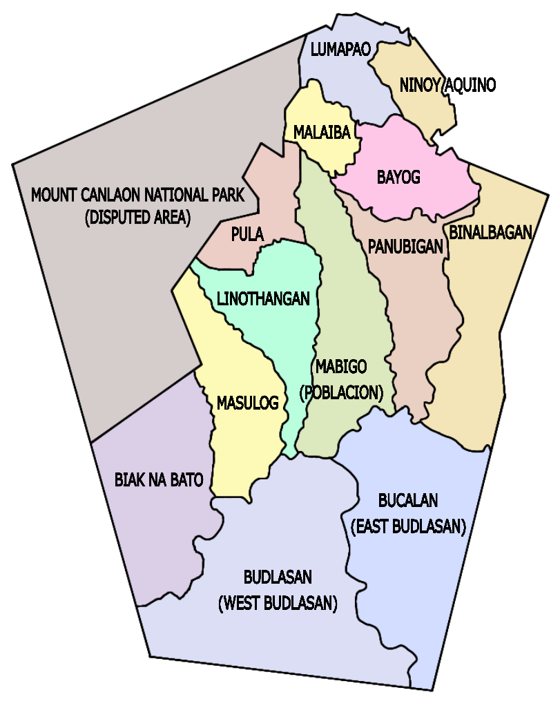 Barangay Map of Canlaon City, Negros Oriental, Philippines